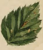 Stainton’s Natural History of the Tineina (1855–1873): Bucculatrix demaryella mined and gnawed birch leaf